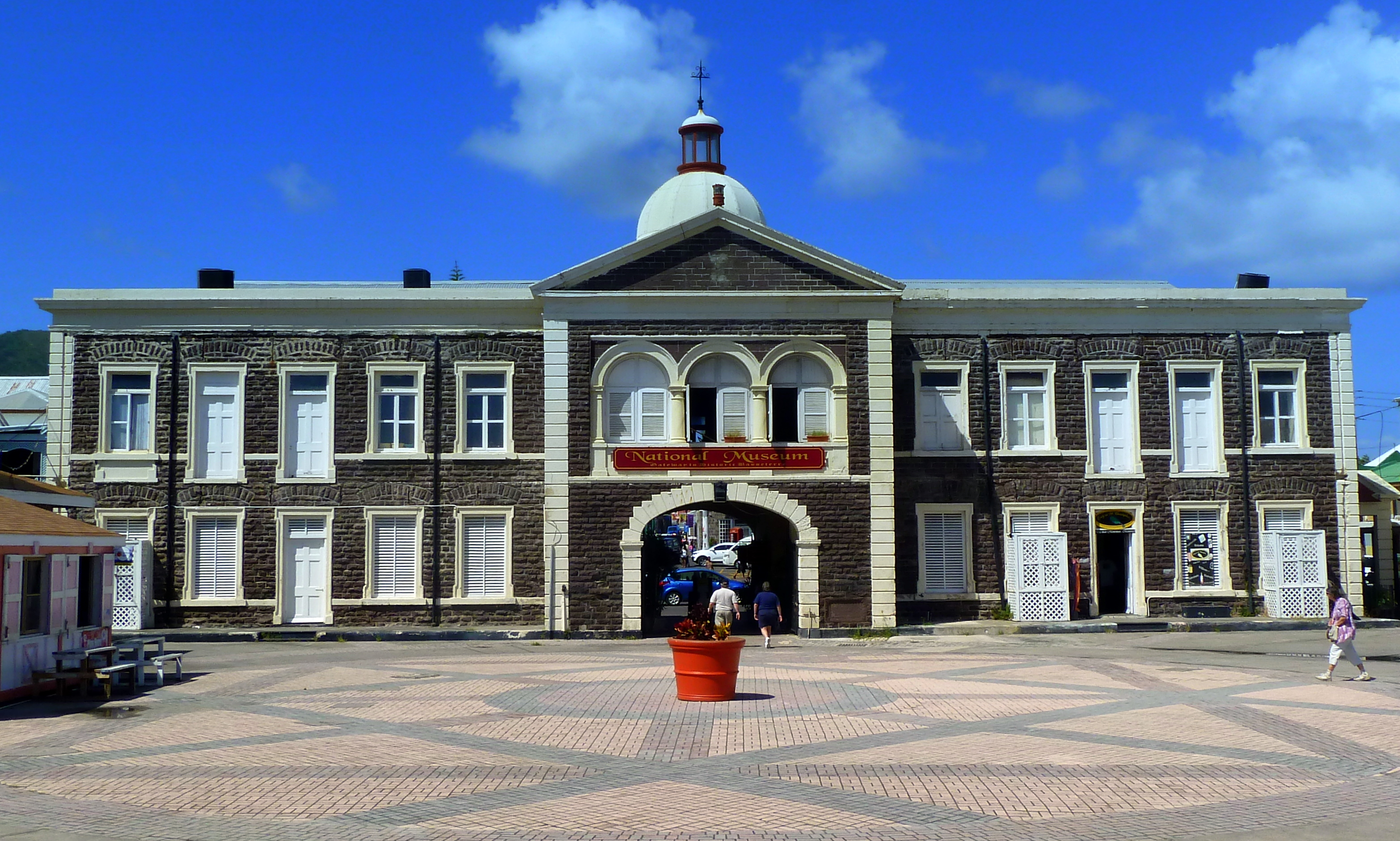 Karibik, St. Kitts - The National Museum of St. Kitts